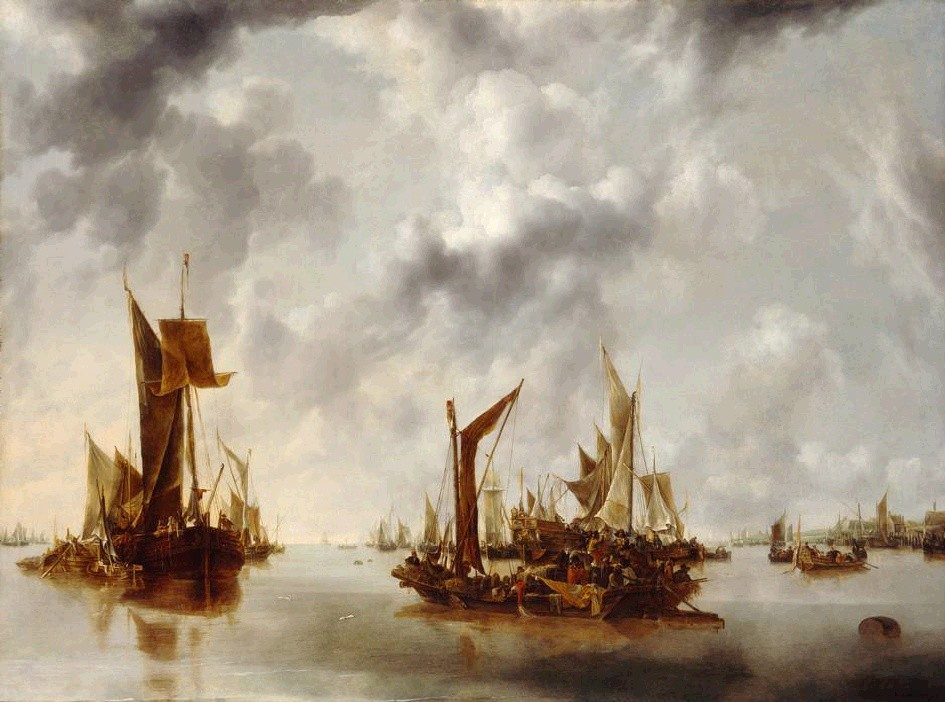 A Calm